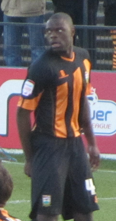 Bondz N'Gala.